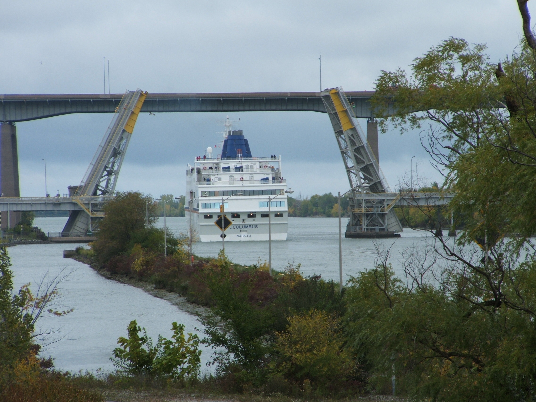 Passenger vessel c. Columbus passing seen through Welland Canal, Bridge 4 (Homer Bridge, a.k.a. Queenston St. Bridge) and under the Garden City Skyway, St. Catharines, Ontario, Canada. The ship has just left Lock 3.